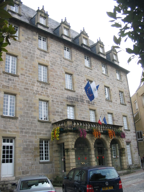 City hall of Brive-la-Gaillarde (South-Western France)